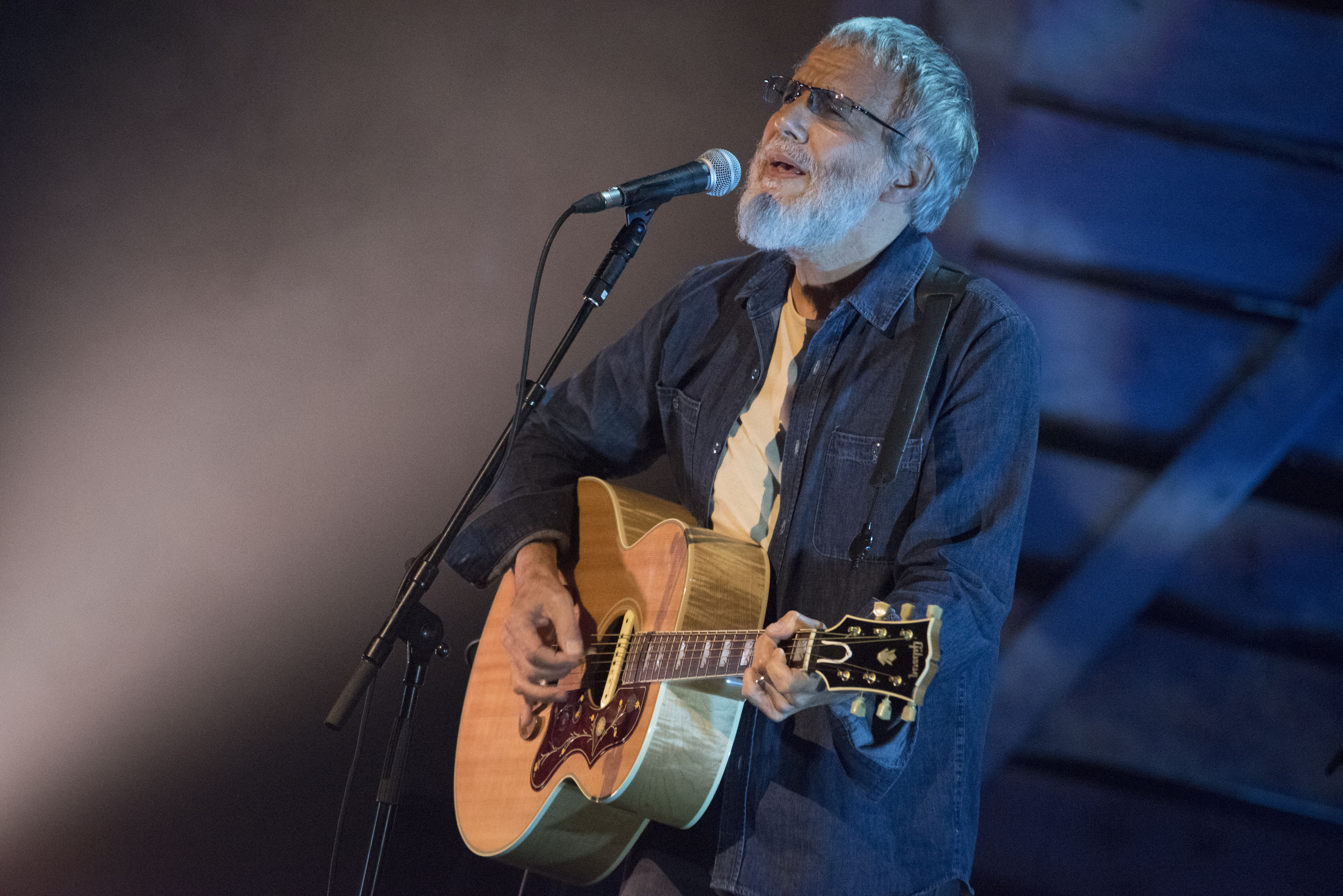 Yusuf Cat Stevens performing at BBC Radio 2 Folk Awards, Cardiff, April 2015